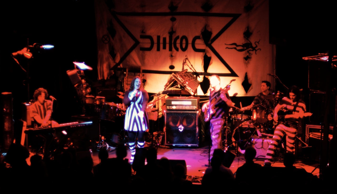 MoeTar plays The Independent, San Francisco, CA on 2011-04-10. MoeTar was the opening act for the matinee show of Sleepytime Gorlilla Museum's last performance. They were followed by a solo performance by Moe! Staiano. Following Moe!, Sleepytime Gorilla Museum played the first of their last two performances before disbanding. The Sleepytime Gorilla Museum banner and equipment are seen on the stage.